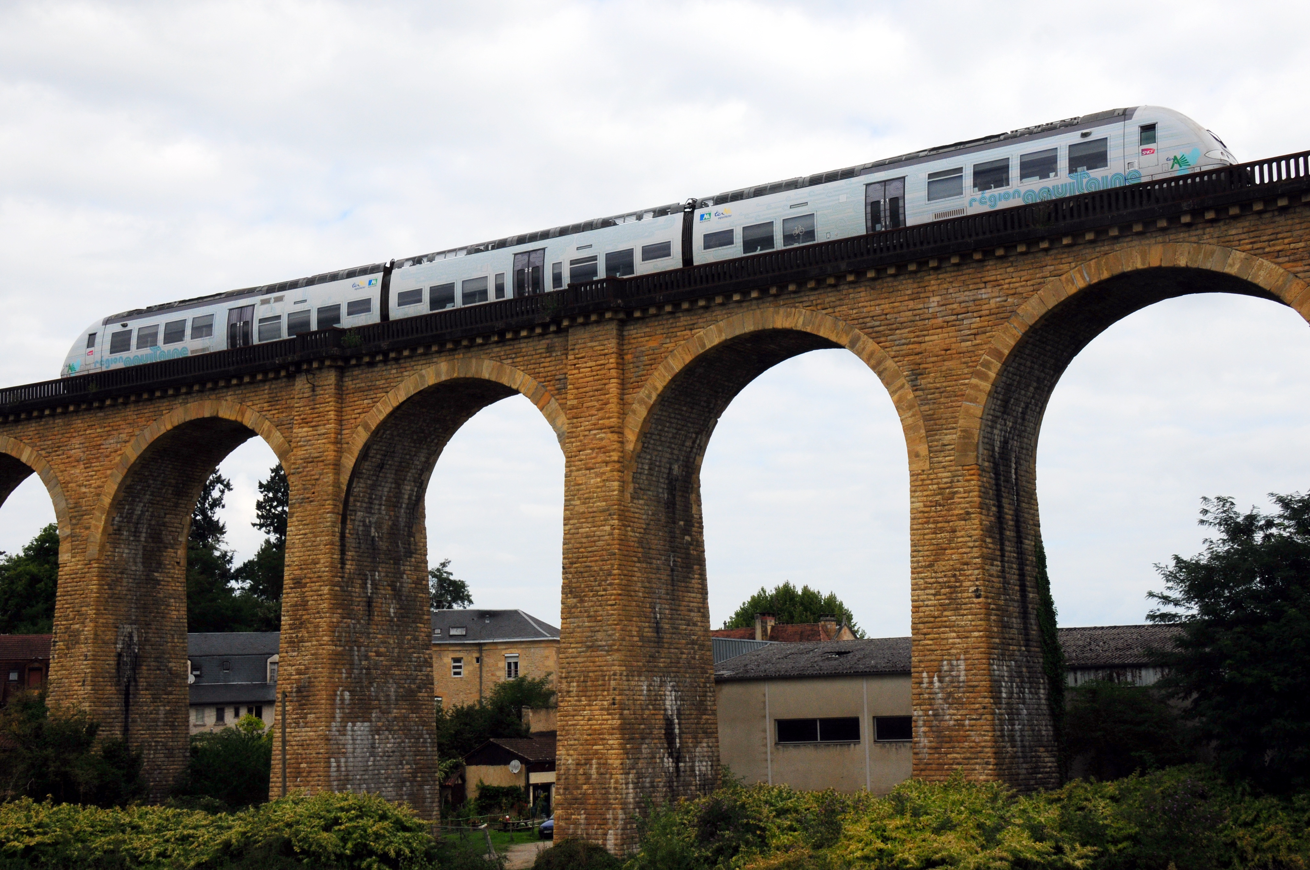 Old railwaybridge Sarlat in the Dordogne, still in use!